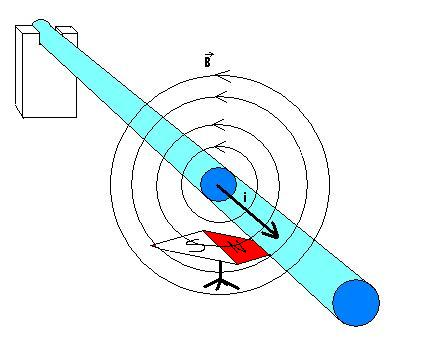 Oersted's experiment